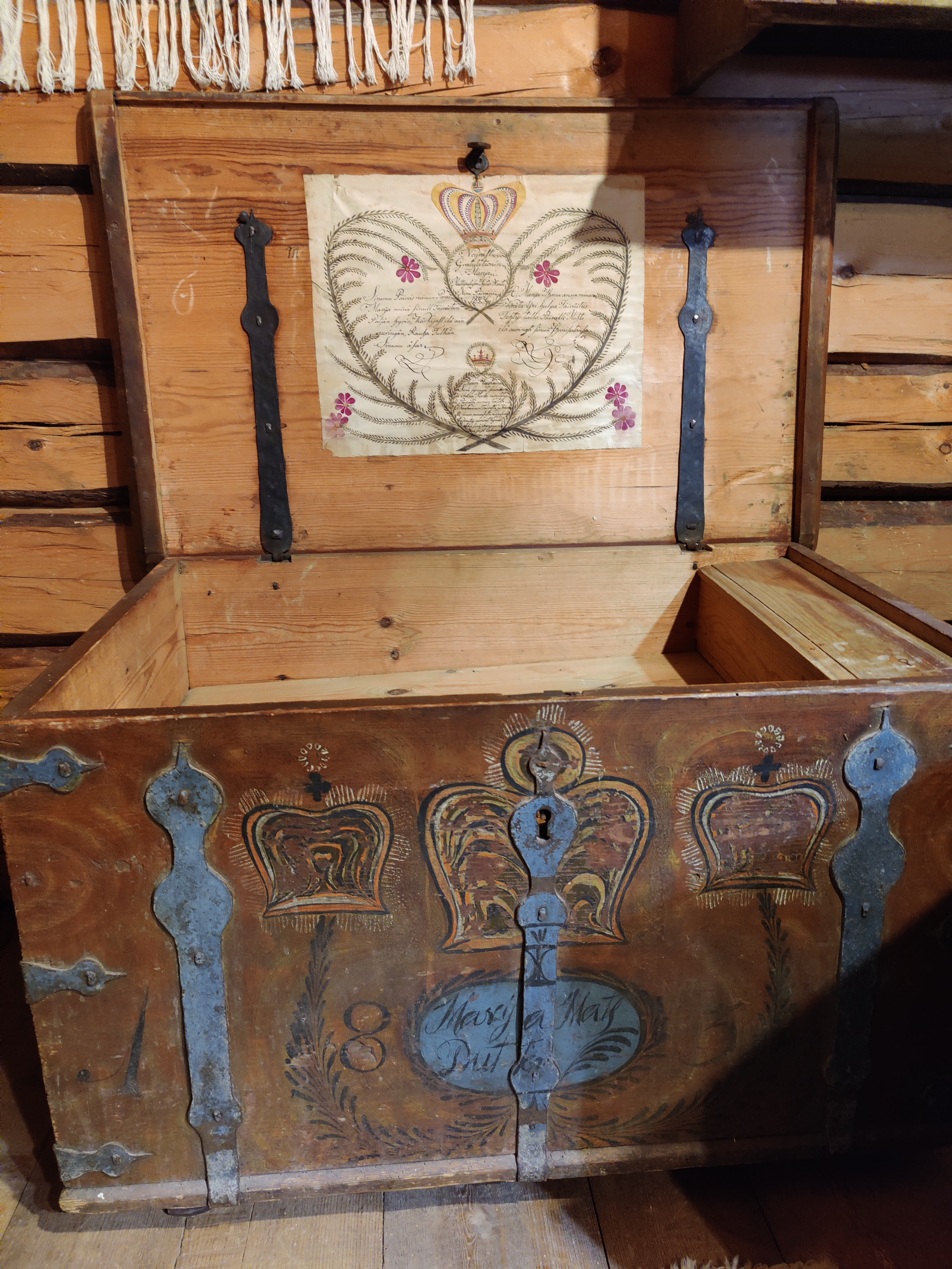 Karjalan kotiseutumuseo, Maria Matiaksentytär Hentun kapioarkku